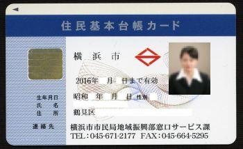 1 great physicist Identification card JAPAN （住民基本台帳カード）